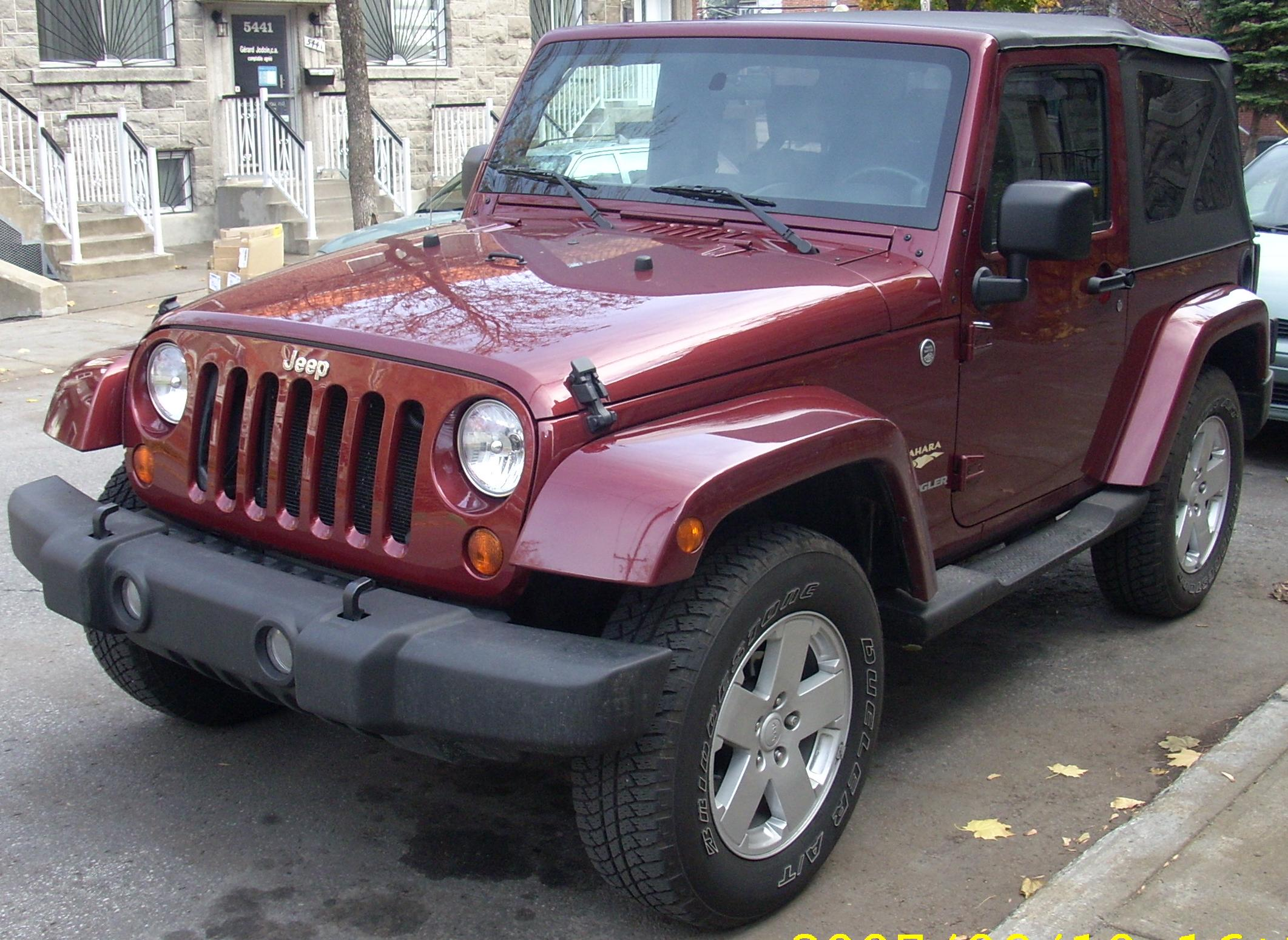 2007-present Jeep Wrangler Sahara convertible photographed in Montreal, Quebec, Canada.